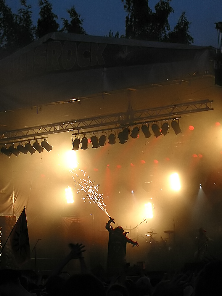 Band Lordi performing on the stage at Ruisrock festival in Turku, Finland.